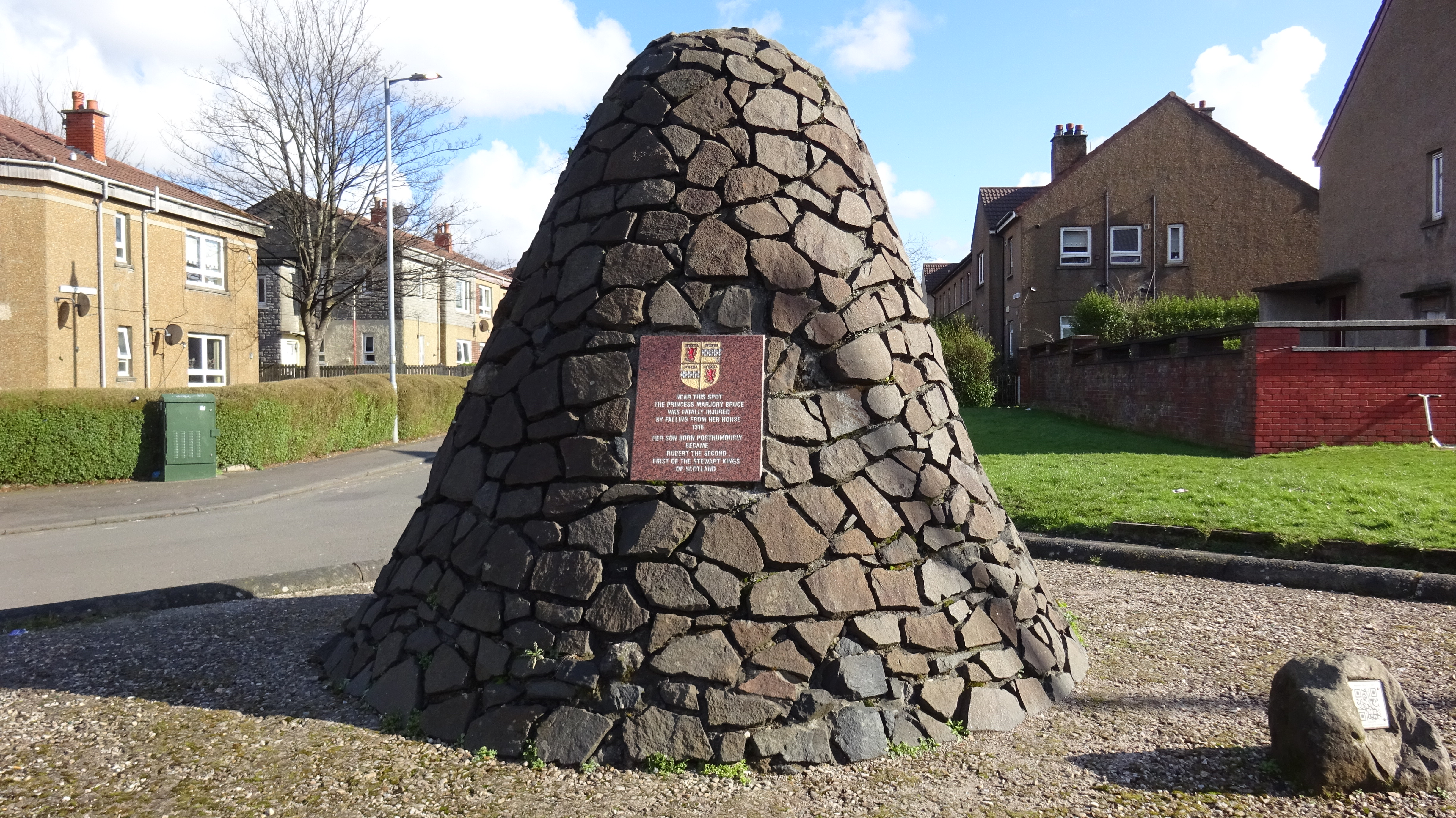 The Princess Marjorie Bruce Memorial Cairn, Gallowhill. Paisley. Supposed site of the death of the princess following a fall from her horse.